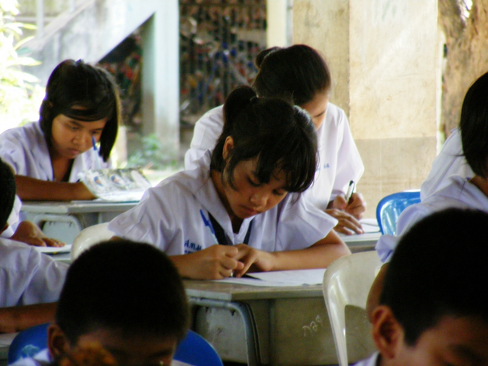 student In Uttaradit. Location: Uttaradit Province, Thailand.